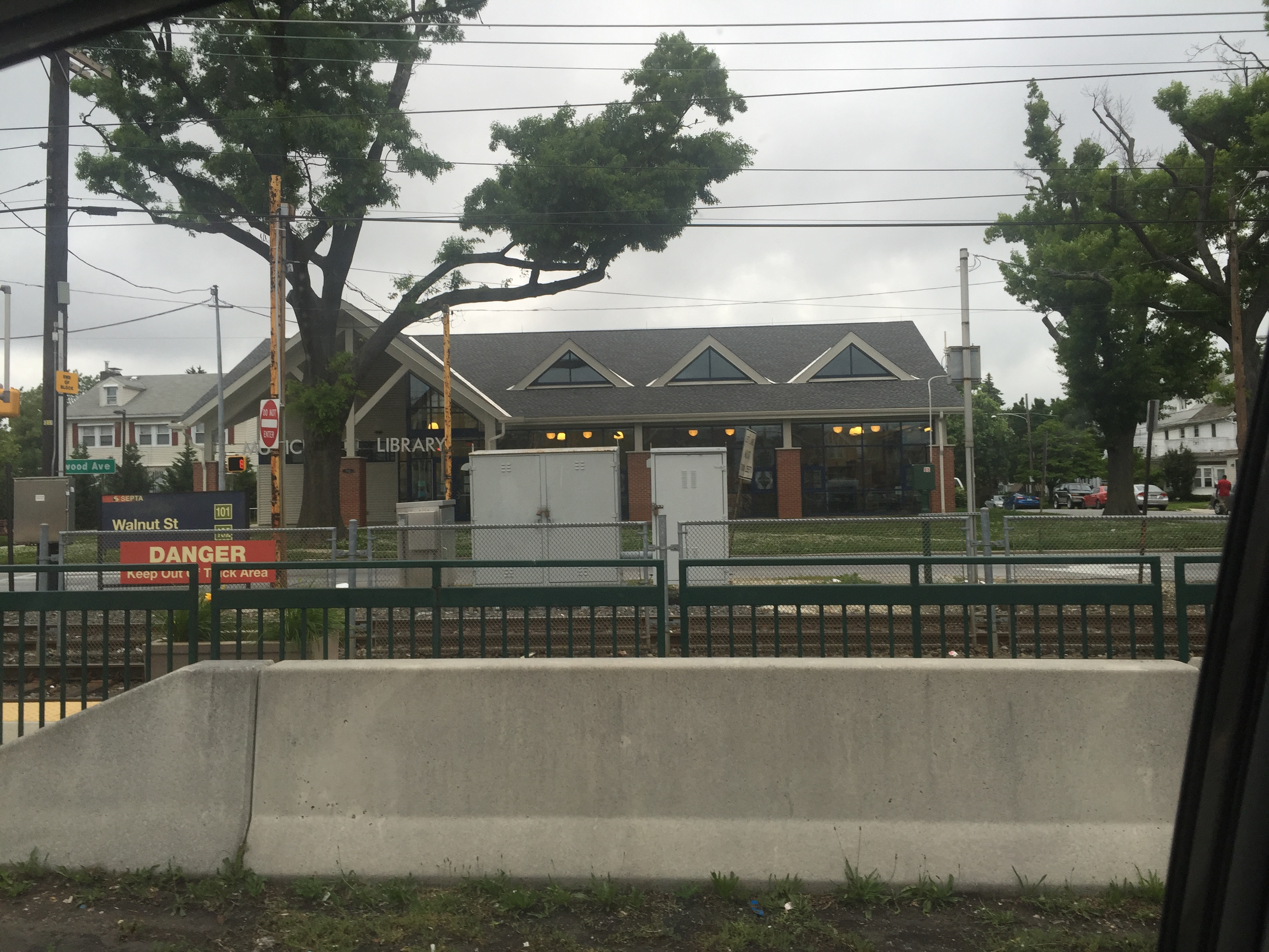 Walnut Street station